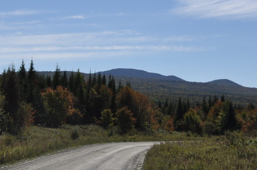 View of Mount Magalloway from Magalloway Road, Pittsburg, New Hampshire.